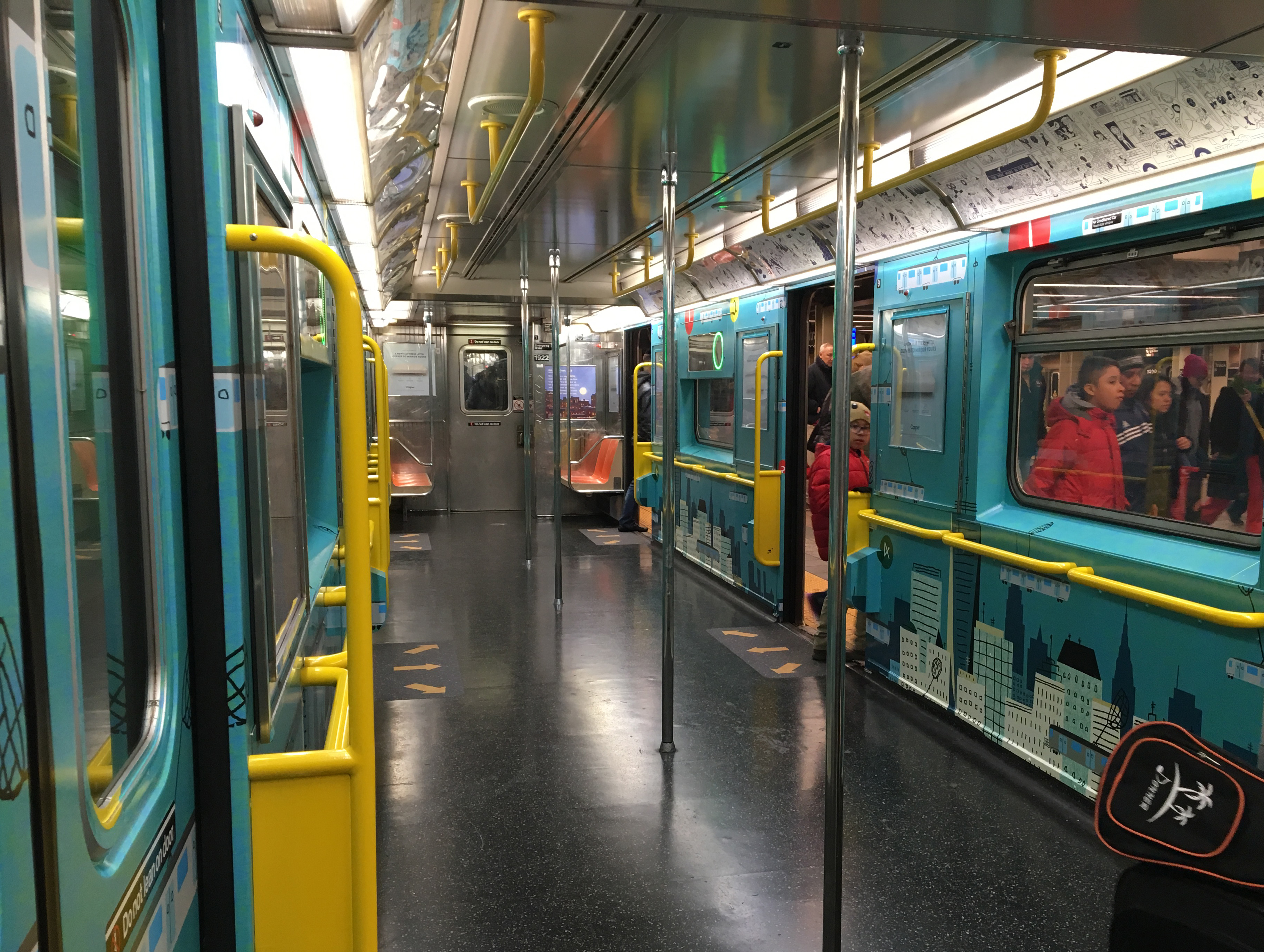 A view of the interior of MTA NYC Subway Bombardier Transportation R62A 1922, which had most of its seats removed to increase capacity on the 42nd St Shuttle S.